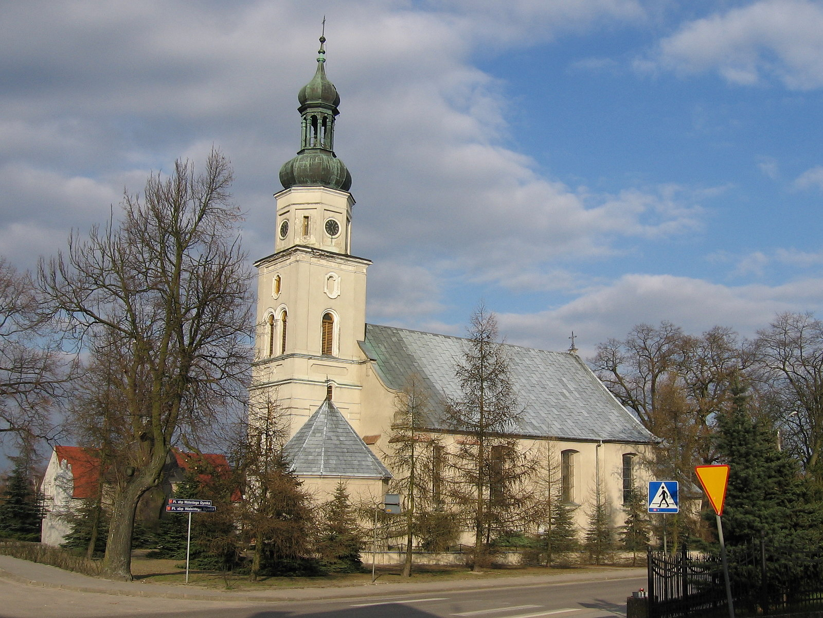 St. Michael Archangel Roman Catholic Church in Połajewo, Poland